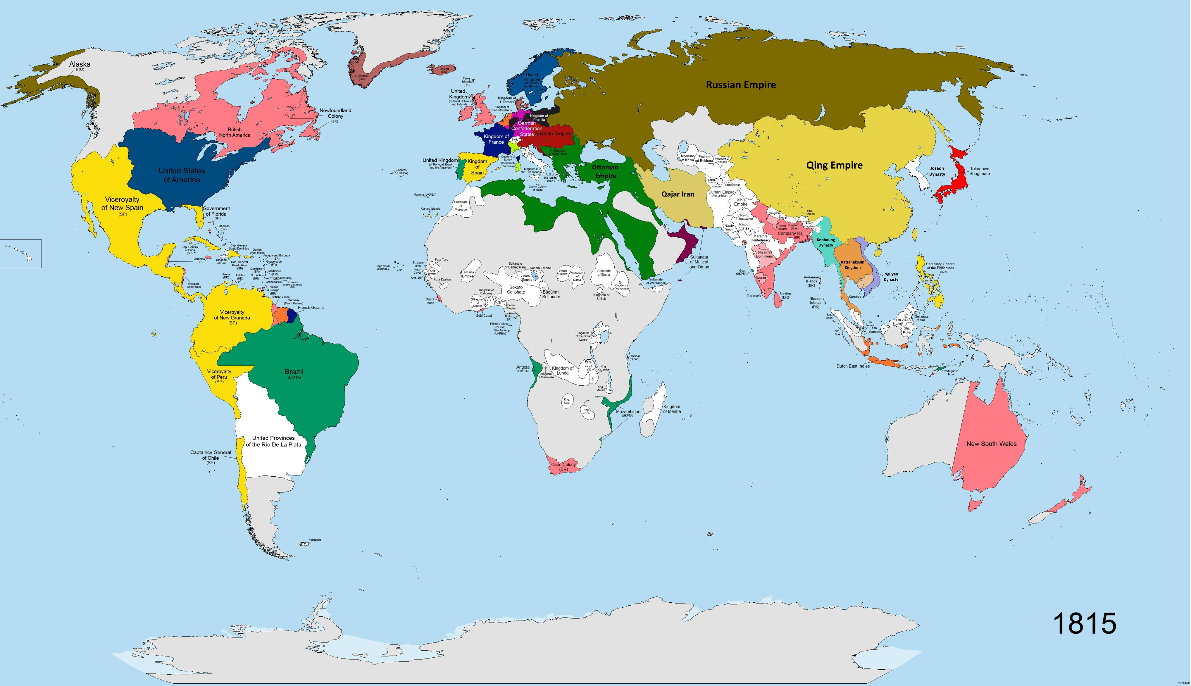 A map of the world in the year 1815 AD. States shown in colours: Britain (pink), France (navy blue), Sweden (dark blue), Prussia (dark grey), the states of the German Confederation (pink), Austria (burgundy), Spain (yellow), Portugal (green-turquoise), Ottoman Empire (dark green), Iran (light green), Russia (brown), Netherlands (orange), Sardinia/Savoy (lime green), China (cream-yellow), Japan (bright red), Denmark (dull red), Oman (maroon-purple), USA (dark blue, similar to Sweden). All other states shown in white. Terra Nullis shown in grey.